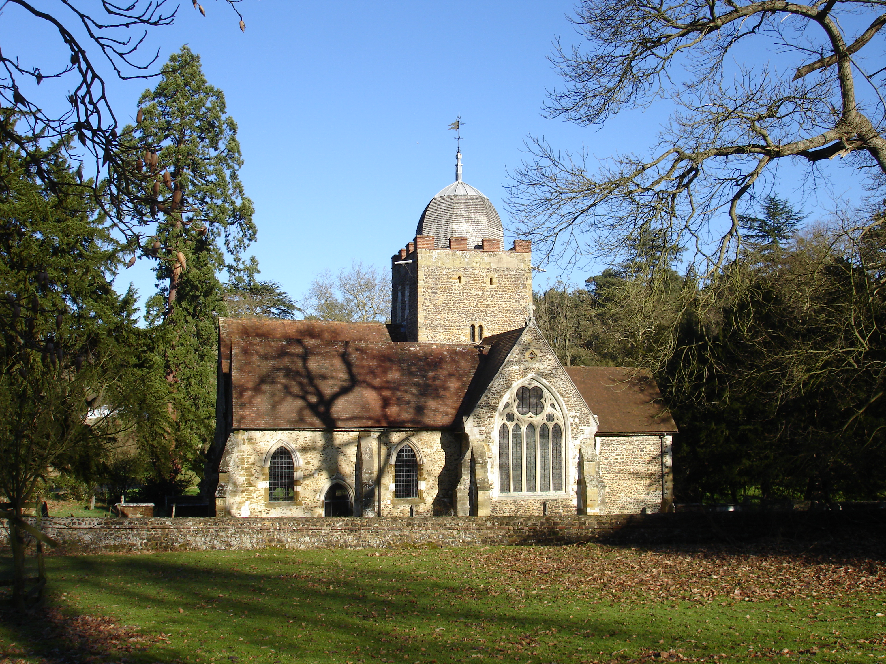 Suzanne Knights, my photo, December 2006